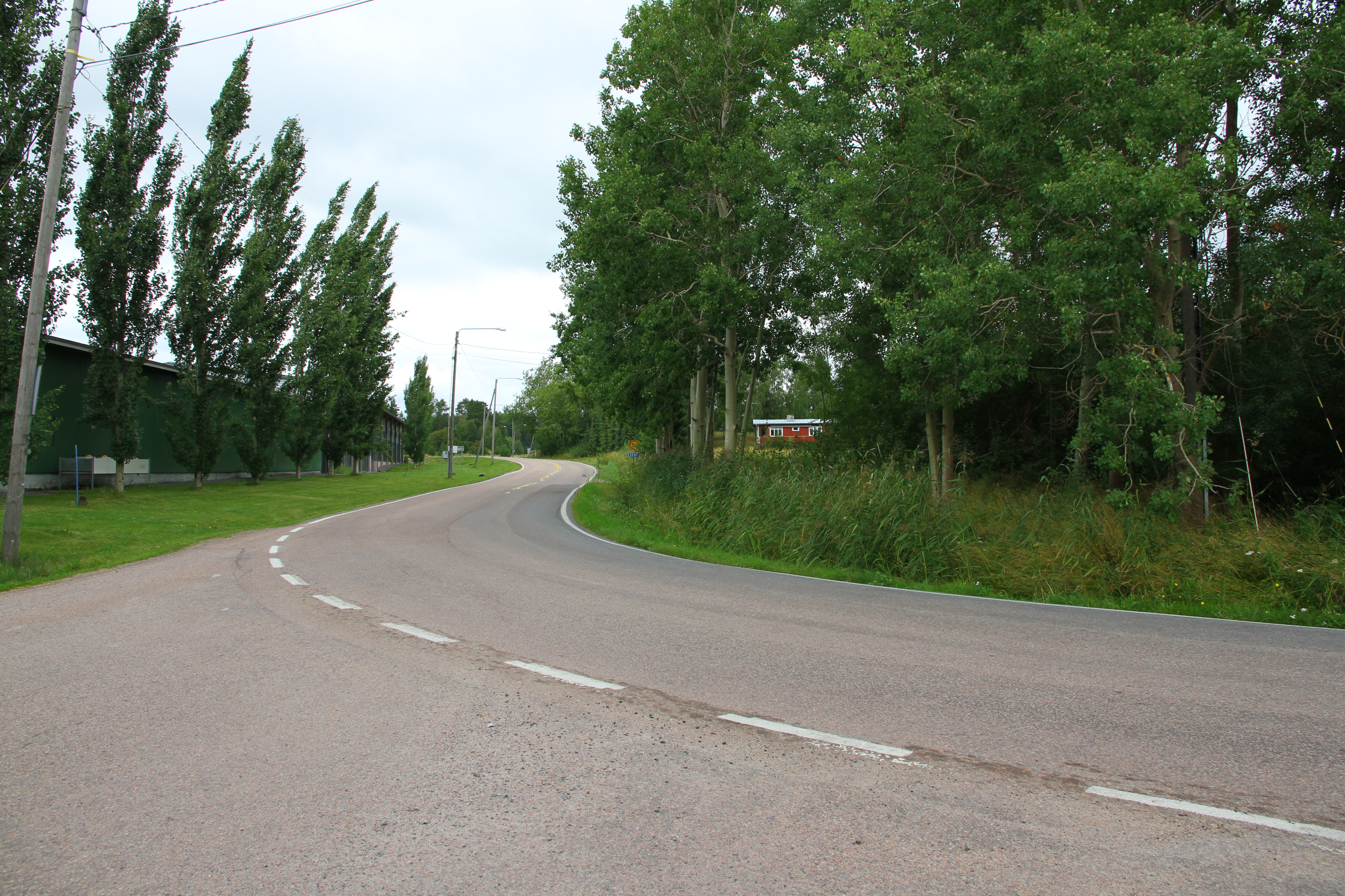 Röölä Naantali, Finland.